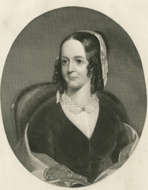 Cropped version of File:Sarah Hale in Godeys.jpg